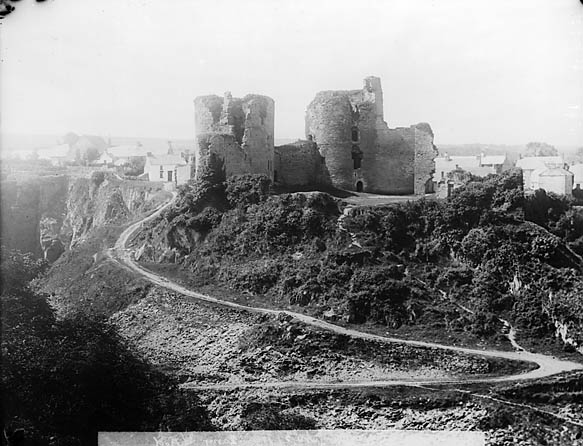 1 negative : glass, dry plate, b&w ; 16.5 x 21.5 cm.